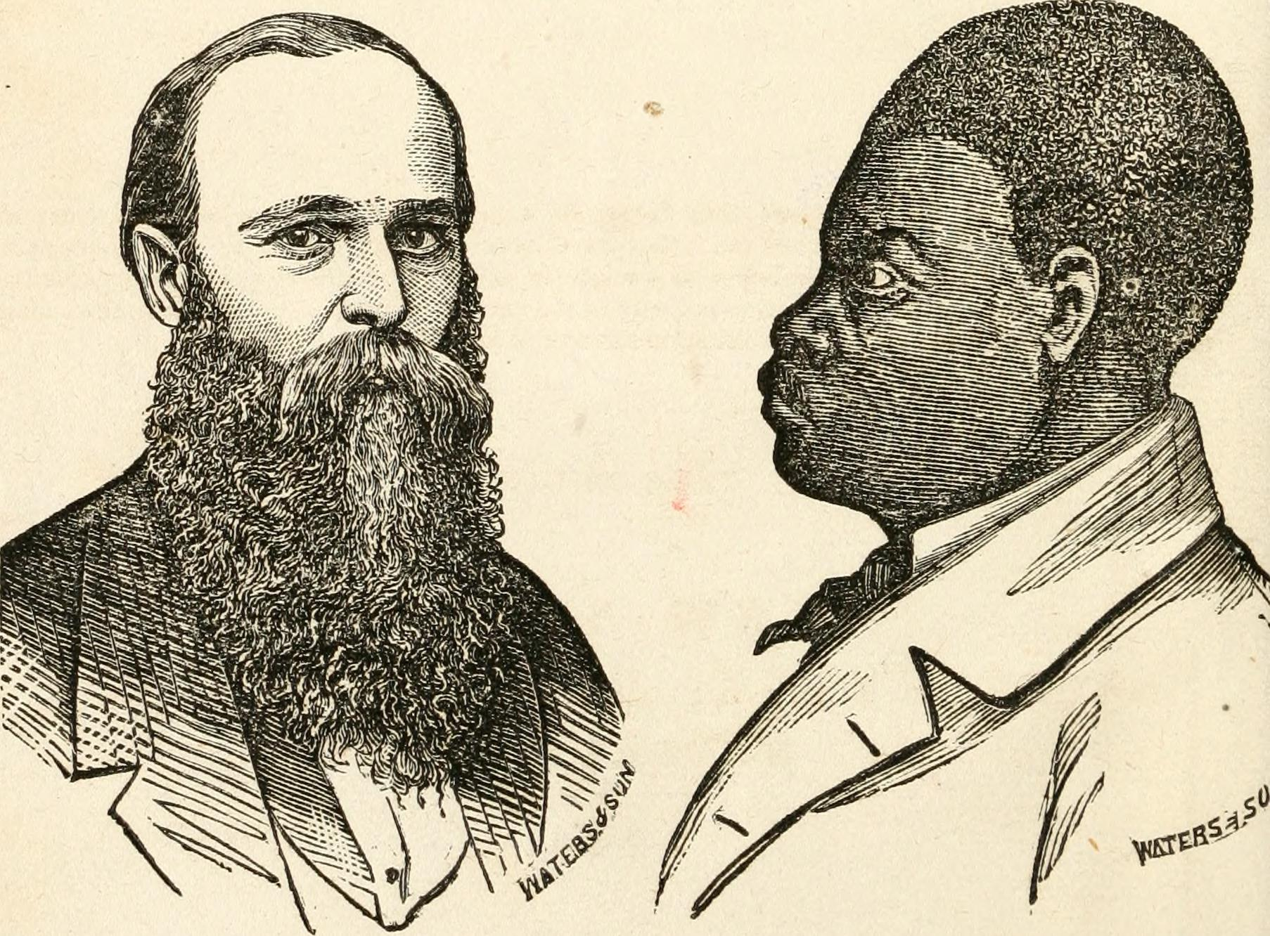 Title: Negroes and Negro "slavery." The first an inferior race: the latter its normal condition Year: 1863 (1860s) Authors: Van Evrie, John H., 1814-1896. (from old catalog) Subjects: African Americans Slavery -- United States Slavery -- Justification. (from old catalog) Publisher: New York, Van Evrie, Horton Text Appearing Before Image: ' Text Appearing After Image: NEGROES AND NEGRO SLAVERY: THE FIRST AN II(FERIOK RACE: THE LATTER ITS NORMAL CONDITION. BY J. H. YAN EYRIE, M.D. * To oar reproach It must be said, that, though for a century and a half we have had under cureyes the races of black and of red men, they have never yet been viewed by us as subjects ofnatural history. I advance it, therefore, as a suspicion only, that the blacks, whether oiiginally adifferent race, or made distinct by time and circumstances, are inferior to the whites in the er.dowmonts both of mind and body.—Thomas Jeiffekson in his JVoies on Virginia. THIRD EDITION. NEW YORK:VAN EYRIE, HORTON & CO., 162 NASSAU STEEET.18 6 3.